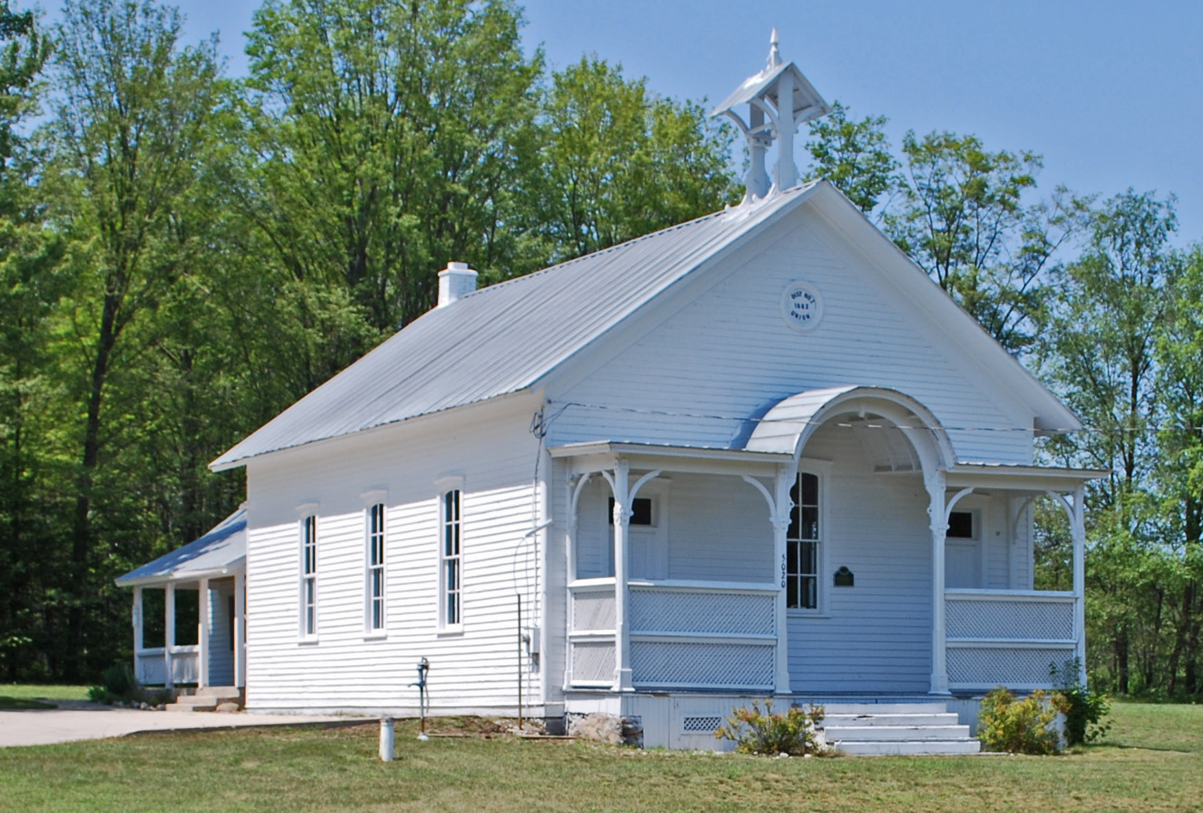 Fife Lake-Union District No. 1 Schoolhouse — in Fife Lake, Grand Traverse County, Michigan.